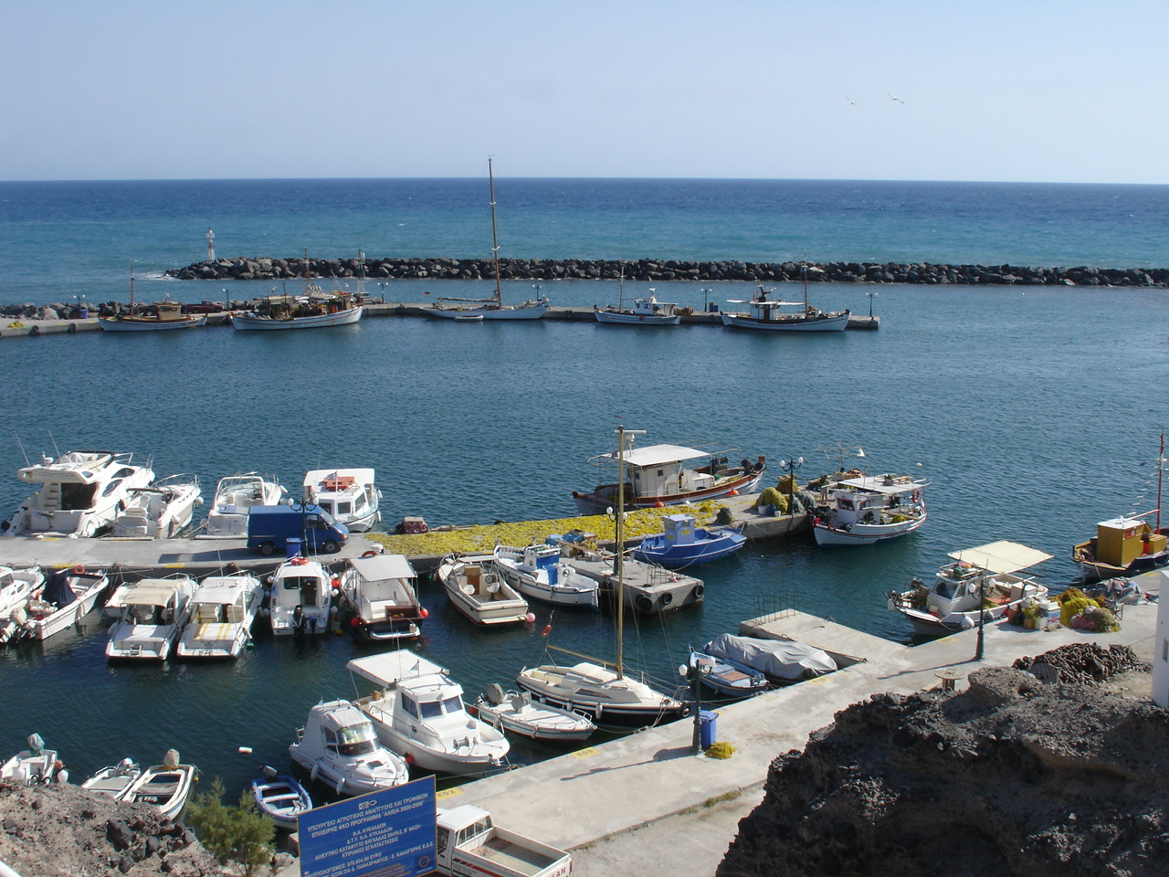 Fishing port of Vlyhada, Santorini, Greece.